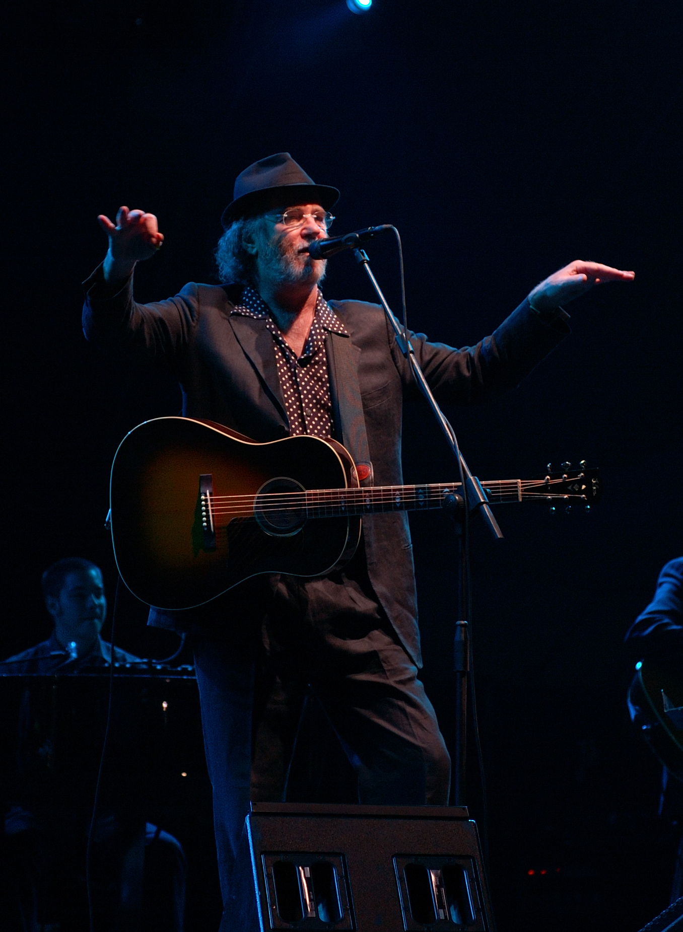 Francesco De Gregori alla Festa del Partito Democratico di Modena il 16 settembre 2008